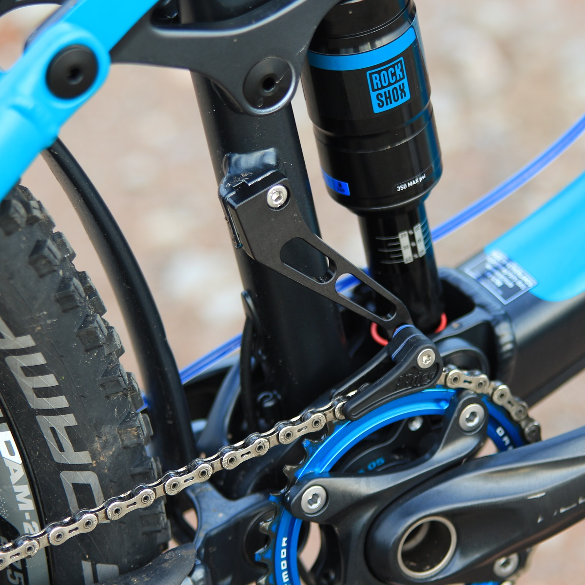 1x Chainguide